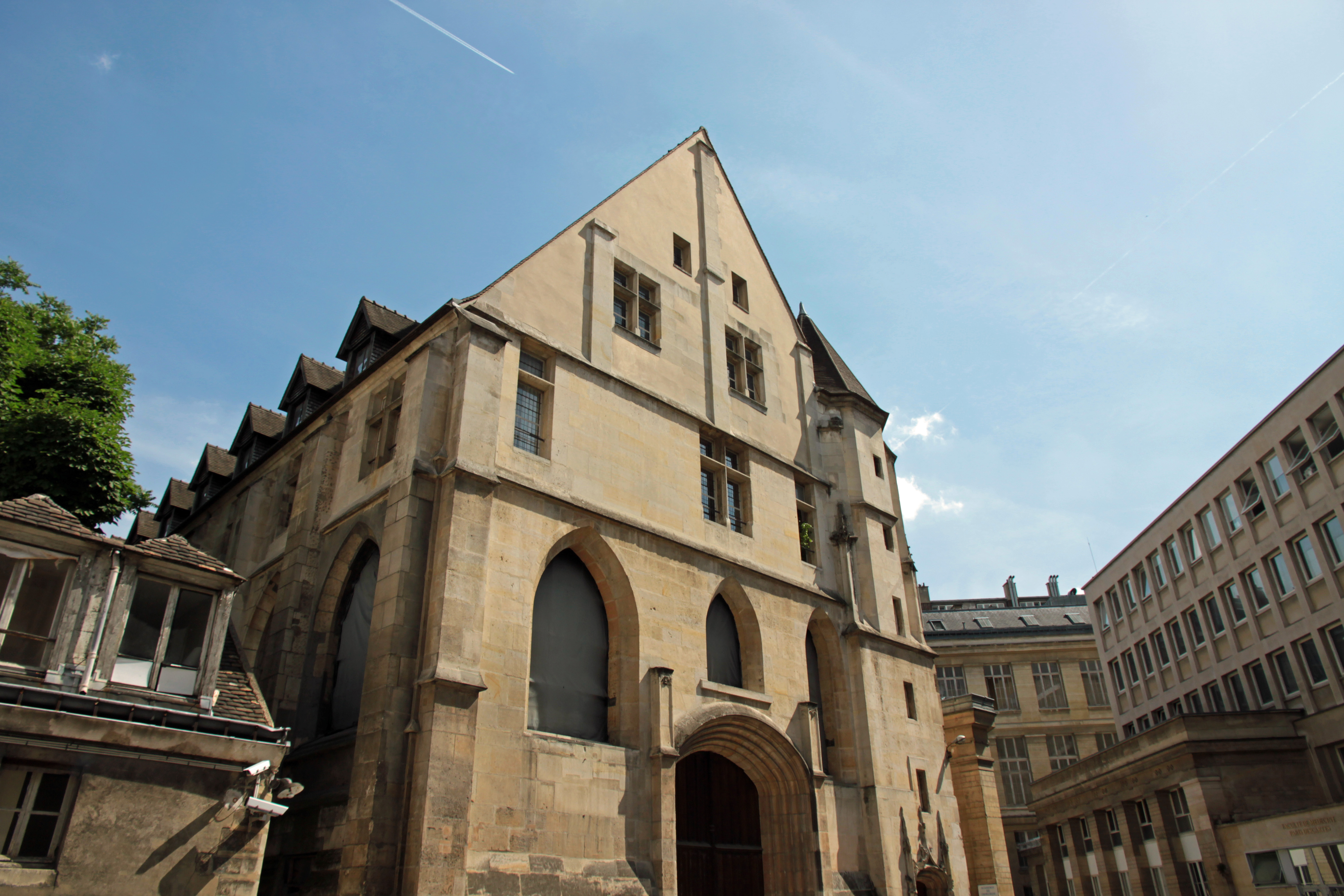 Former Cordeliers Convent (refectory from the XVIth century), rue de l'École-de-Médecine, Paris. The location is now mainly used by the school of medicine of Paris Descartes university (as seen on the right).